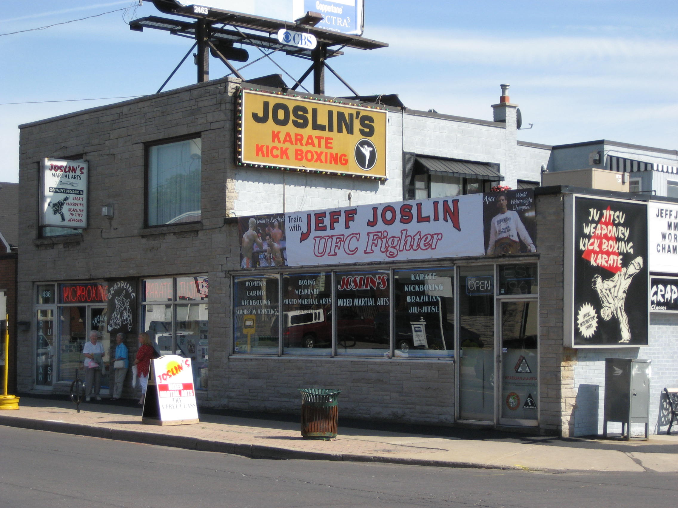 Joslins, Concession Street, Hamilton